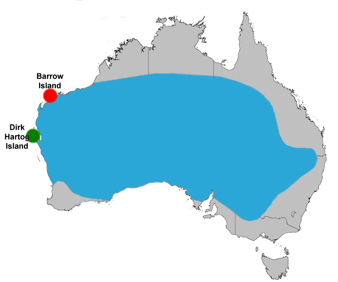 Distribution map for the White-winged Fairy-wren